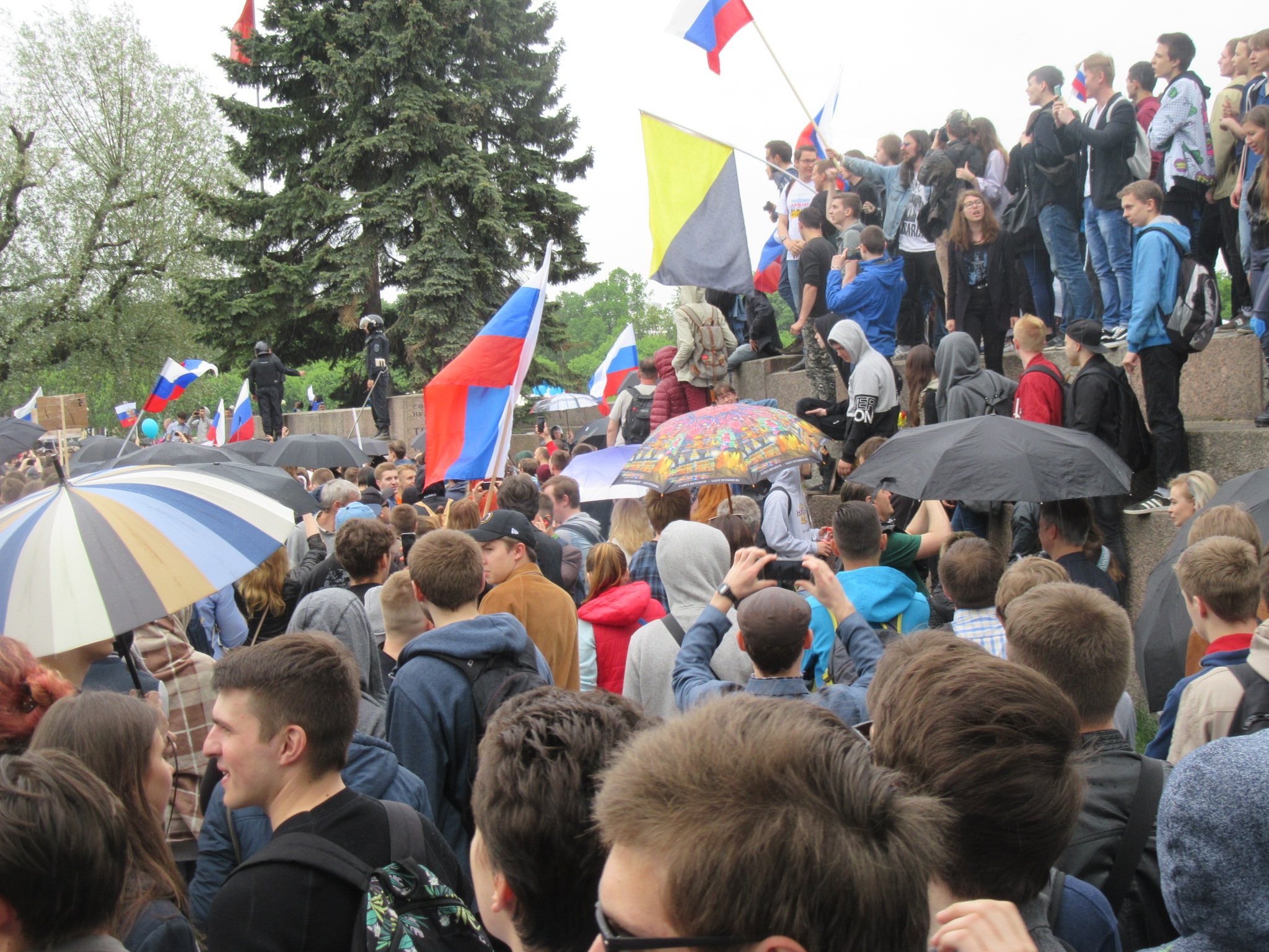 2017-06-12 Anti-corruption rally in St. Petersburg, Russia. Campus Martii. Protesters take one quarter of the monument over again.